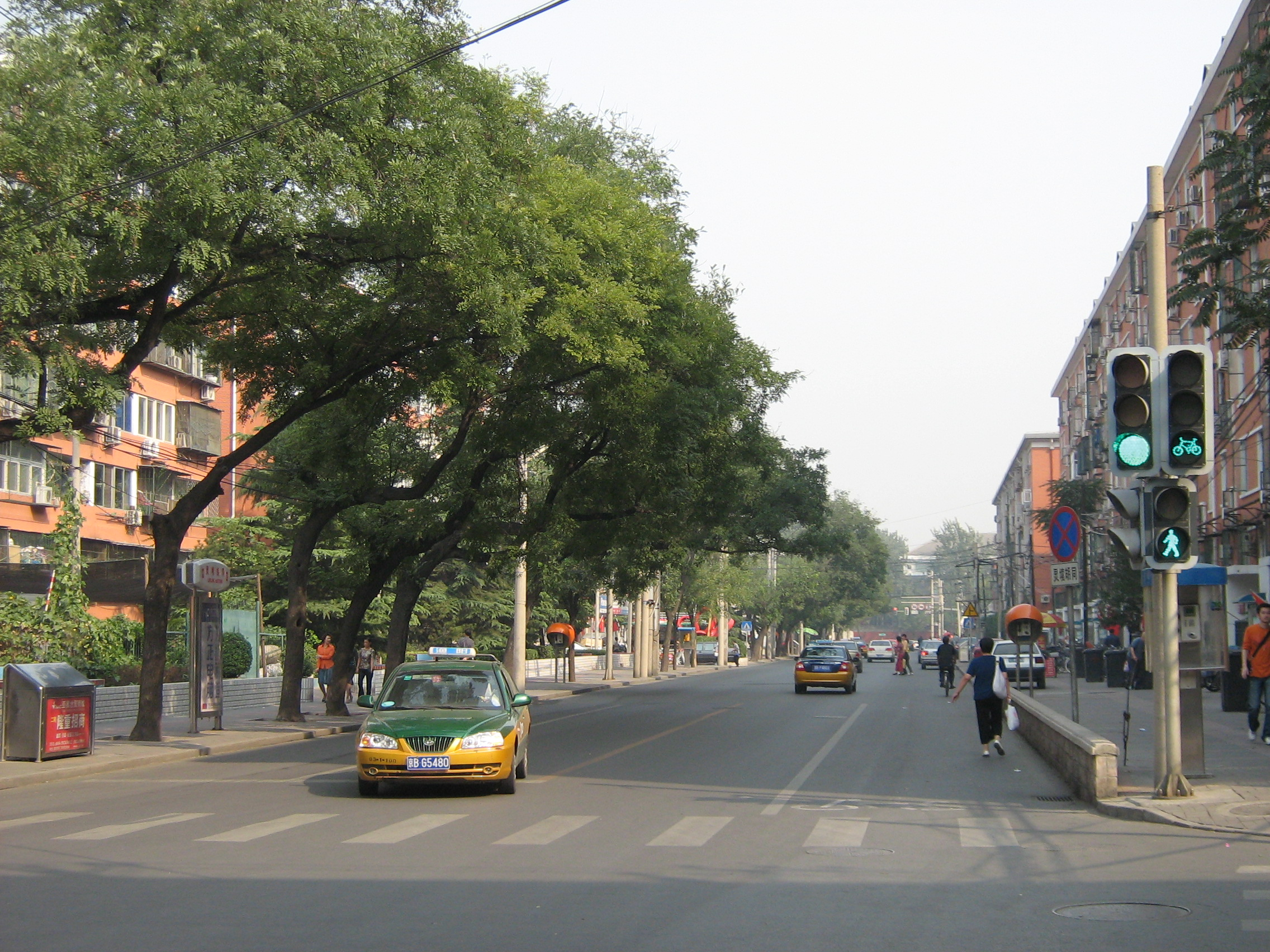 Lingjing Hutong (灵境胡同), East (from west towards east), Beijing, China